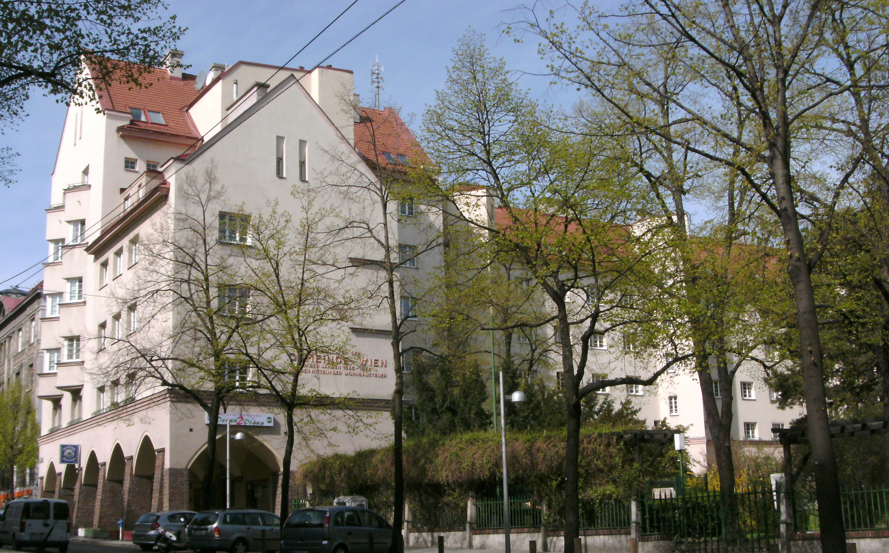 Municipal residential building "Ebert-Hof", Hütteldorfer Straße, Vienna's 15th district (listed building)